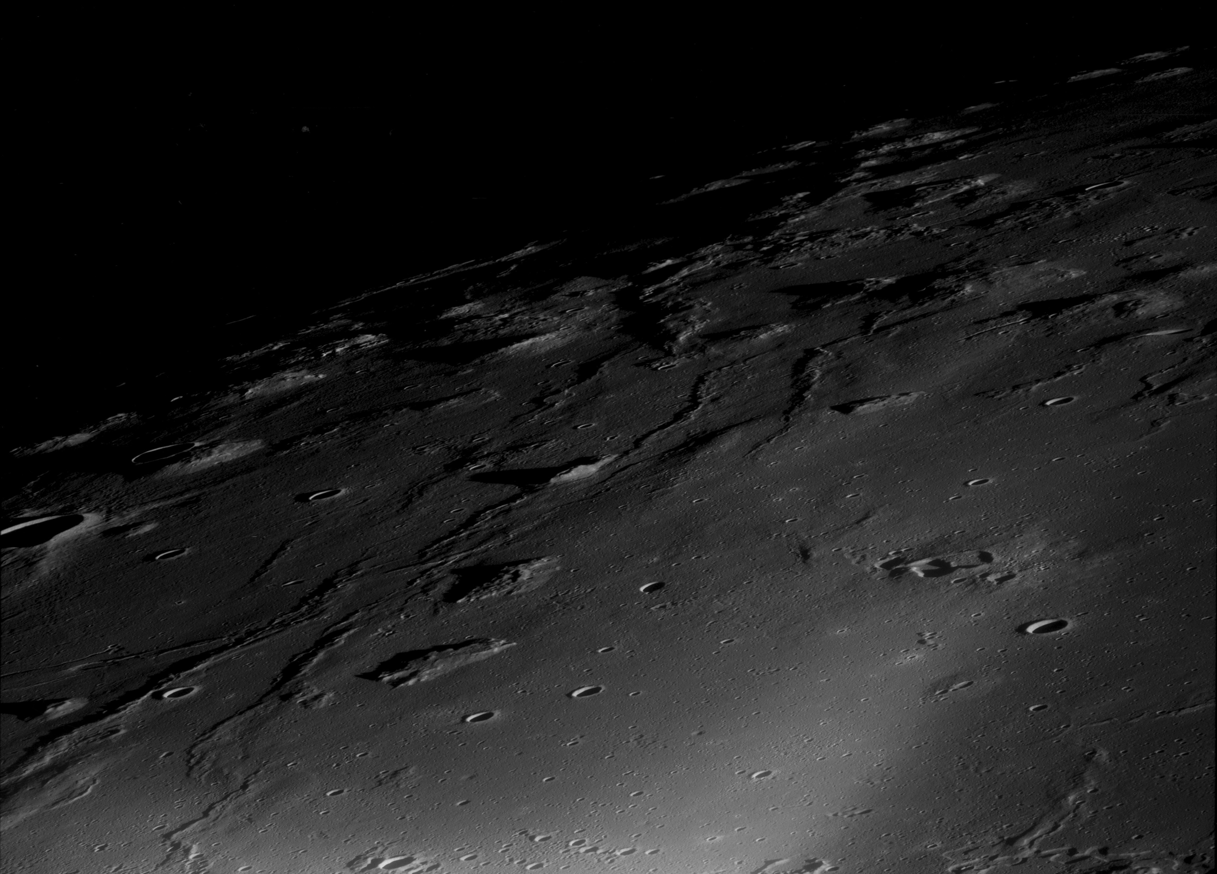 Oblique view of some of the Marius Hills, on the moon.